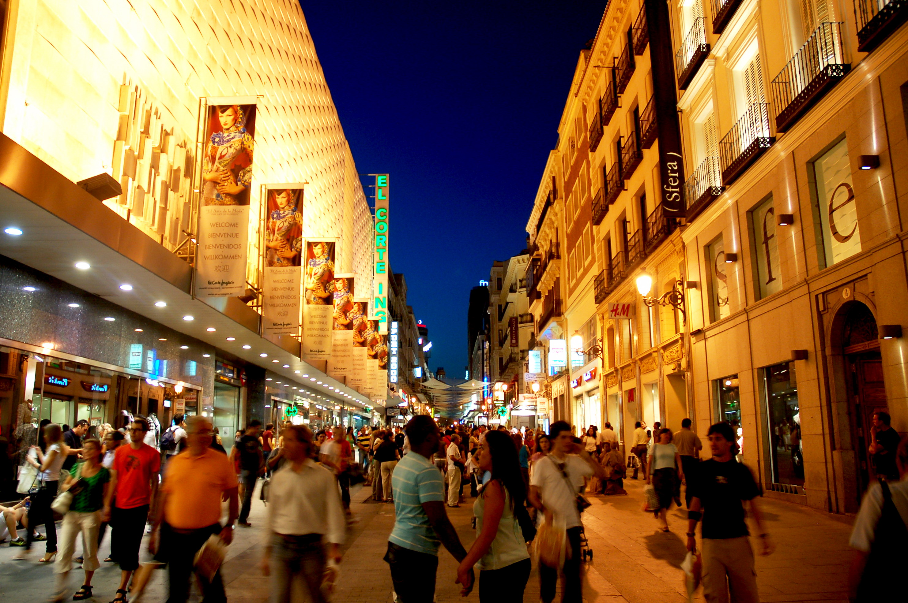 exile on consuming street